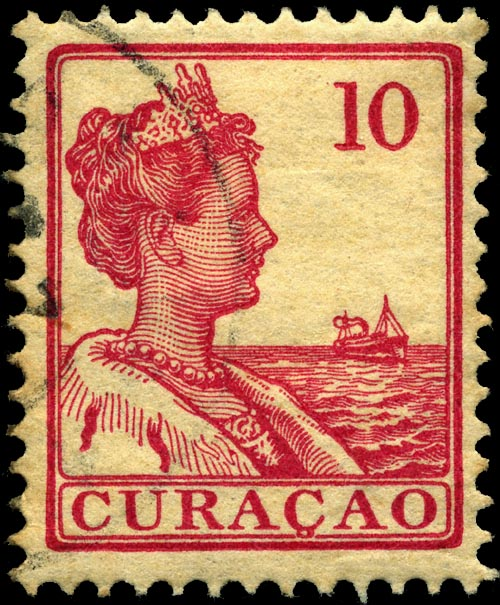 Netherlands Antilles 10c stamp of 1915